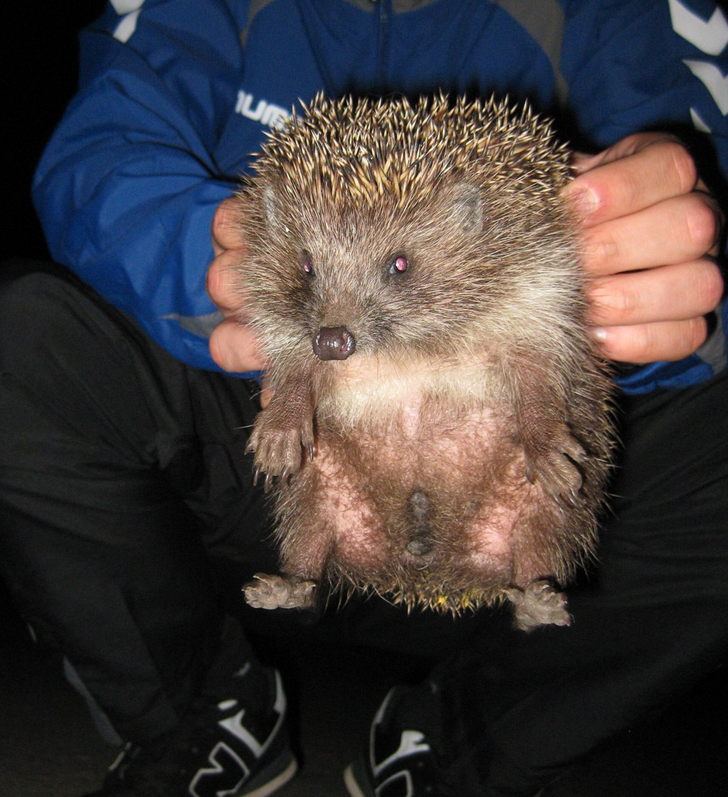 Body of Erinaceus europaeus